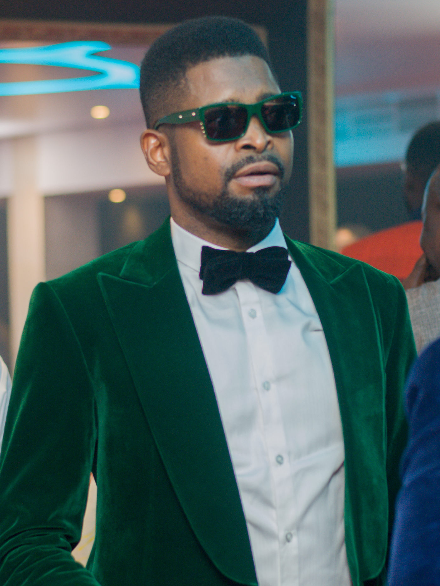 Pictures from AMVCA 2020